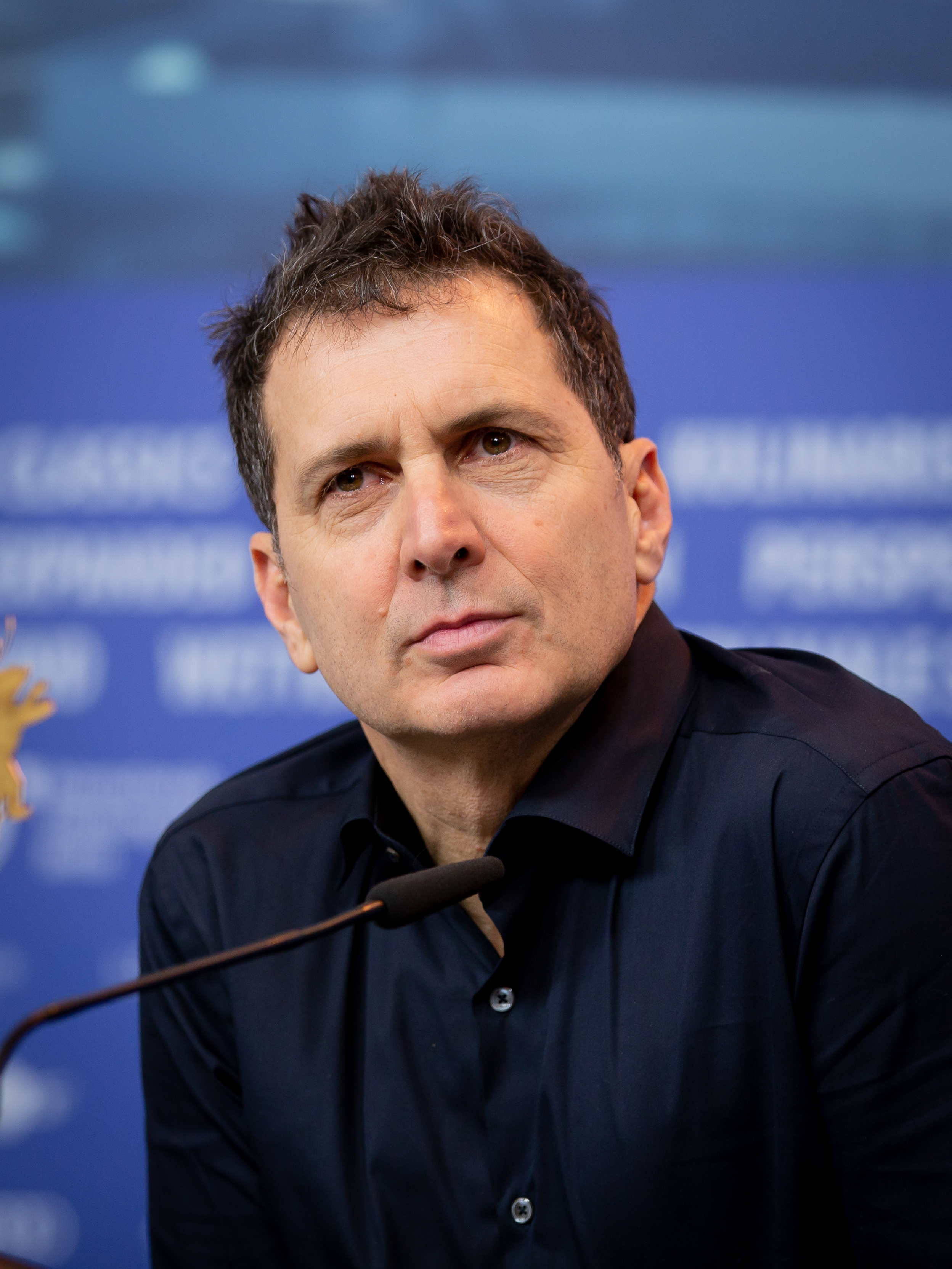 Film director Yuval Adler at the Berlinale 2019